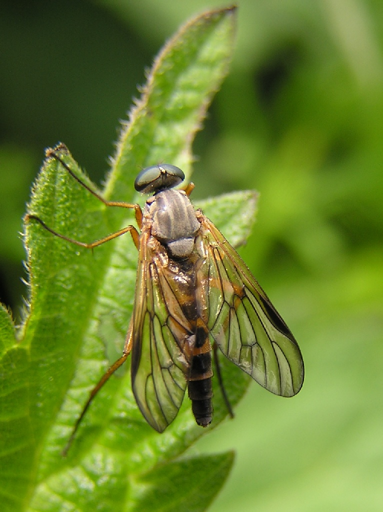 Probably Rhagio vitripennis in a tributary valley of the Ahr.